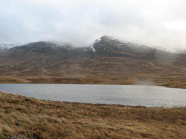 Allt Meall Ardruighe Reservoir Why a reservoir here? There are weirs on the two Lochan na h-Earba too and I suspect that the dam here allows water to be pushed over the watershed to Lochan na h-Earba to help power the estate's 1.1 MW power station. Photograph has suffered from the odd droplet on the lens, a showery day. Beinn a' Chlachair in the background.